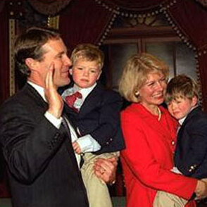 Senator Bayh, joined by his wife Susan and their two sons, is sworn into the U.S. Senate.